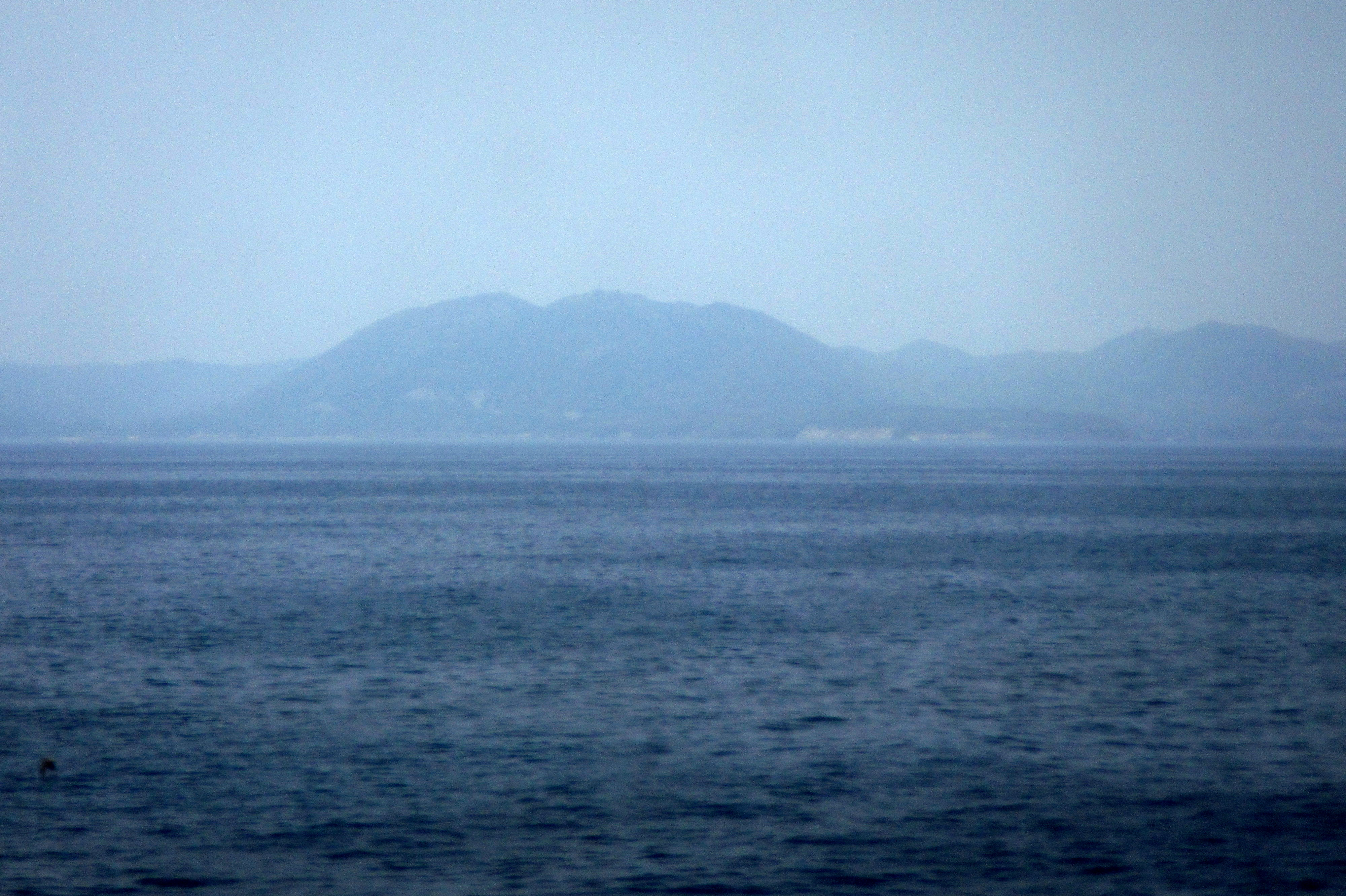 九州高速船から対馬 Tsushima Island from Kyushu Ferry